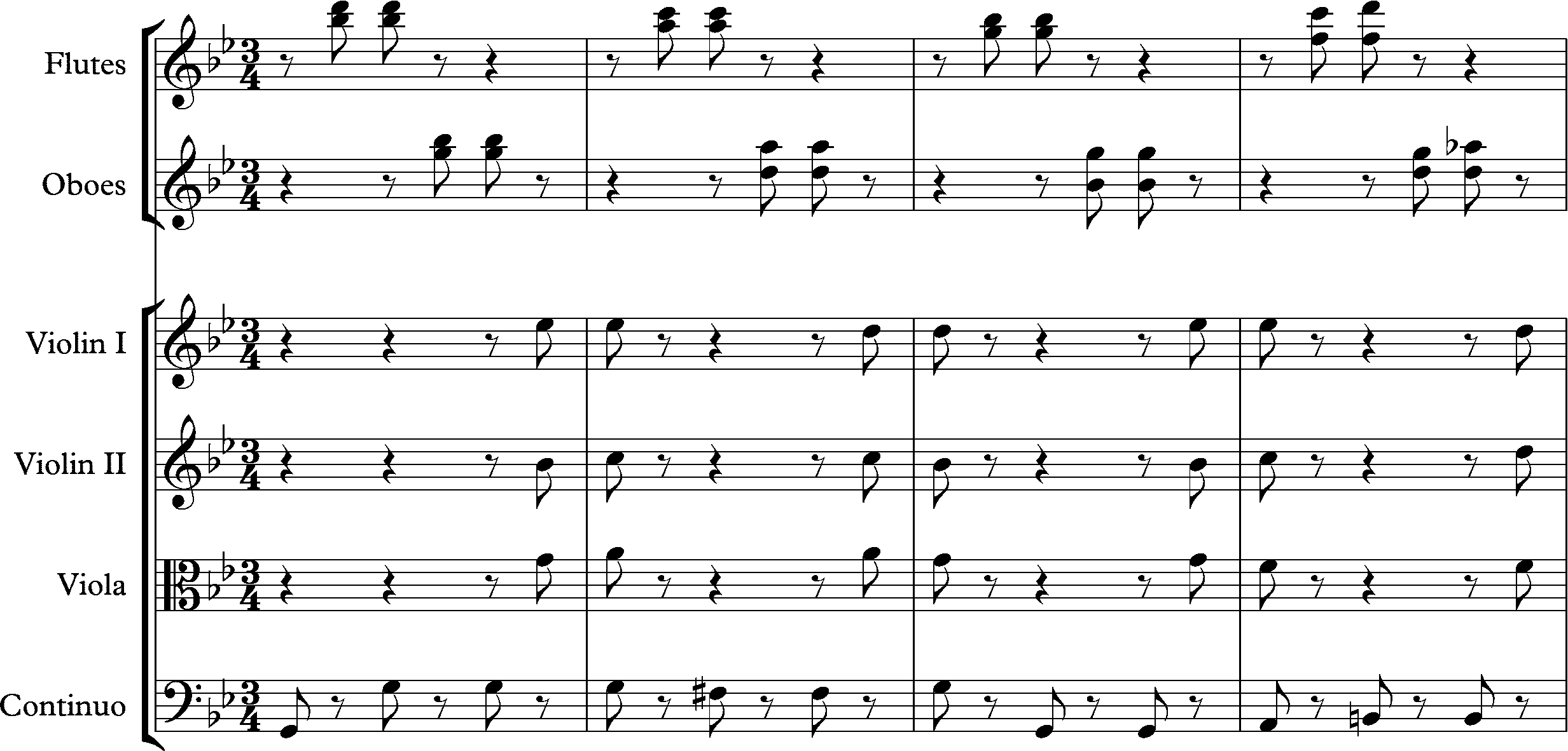 J.S.Bach Cantata 39, opening bars